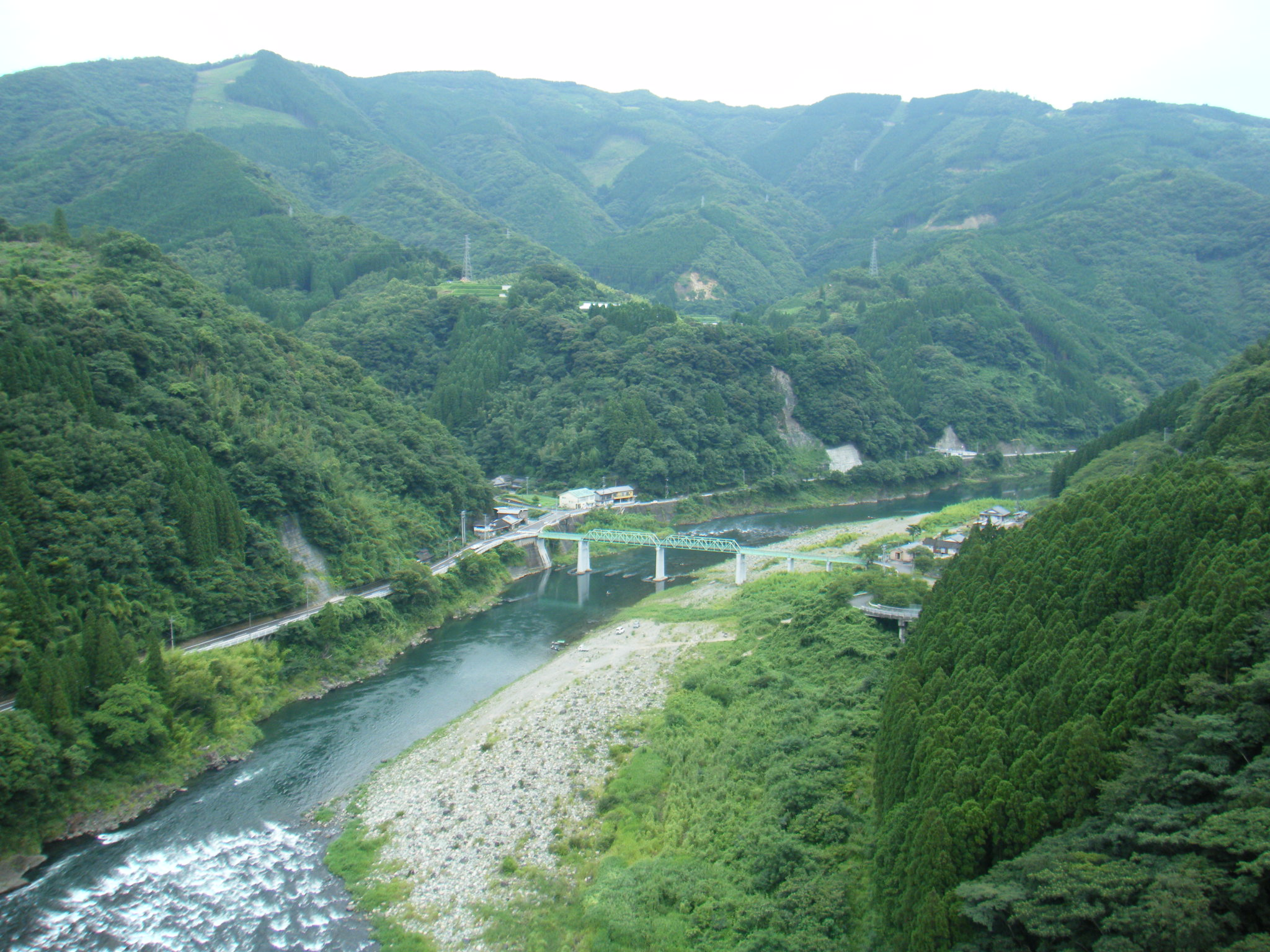 Gokasegawa-river